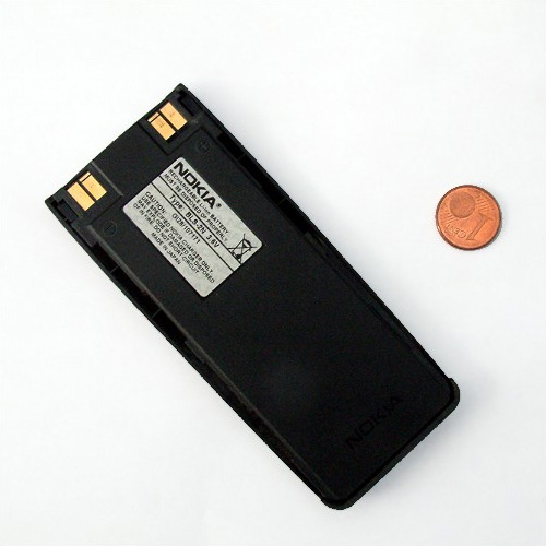 rechargable lipoly battery